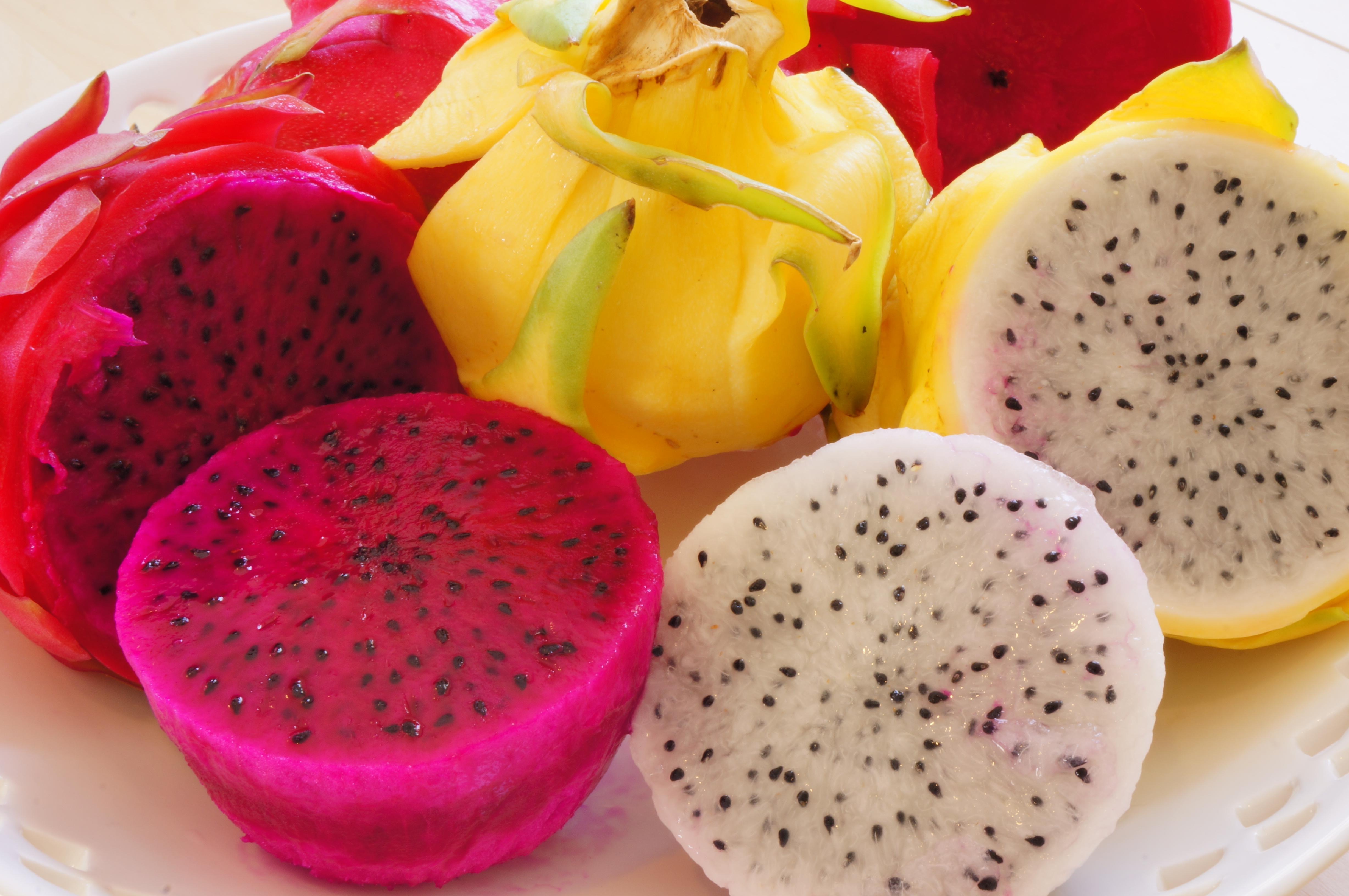 Pitaya Fruit colors